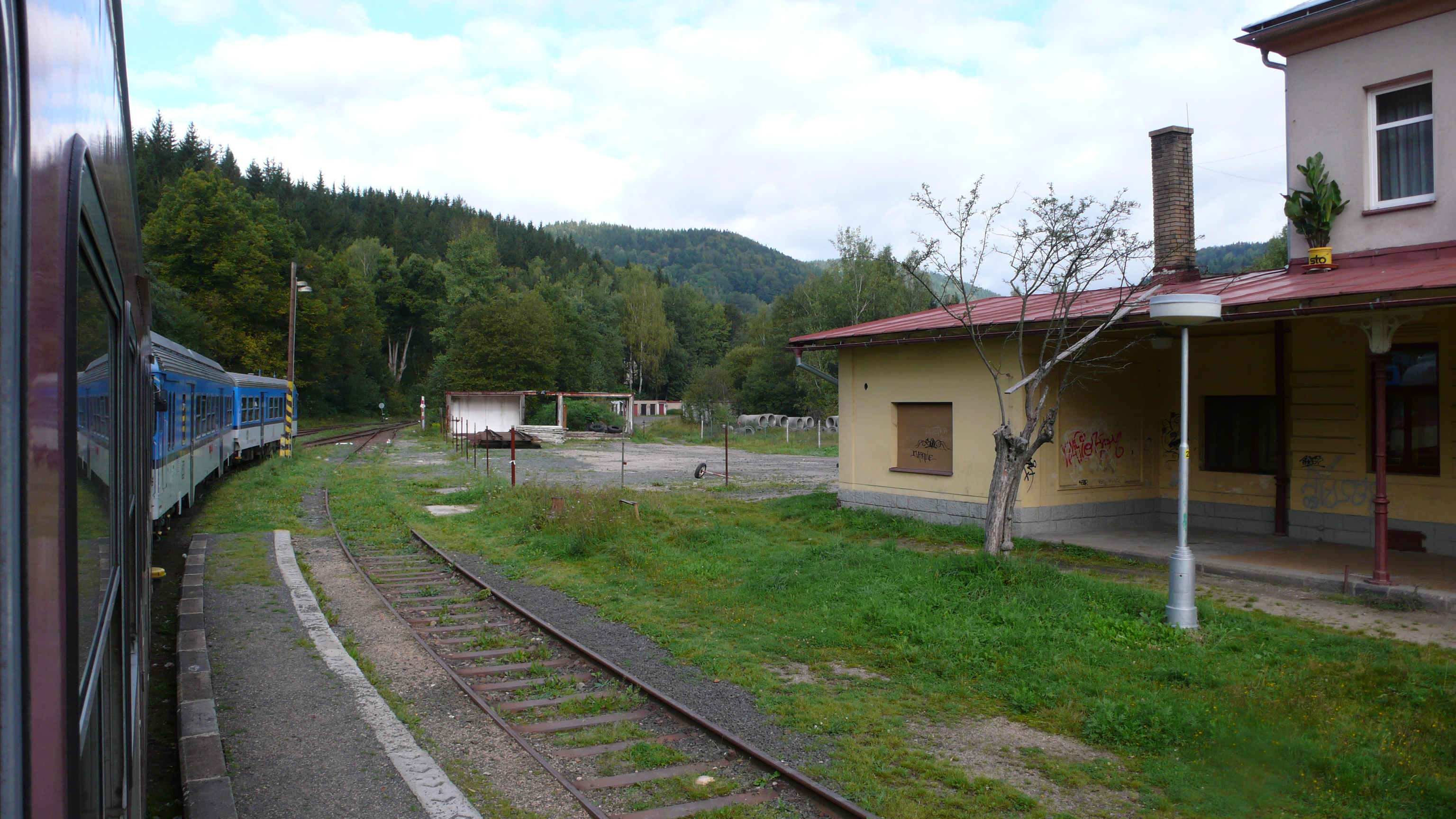 Tanvald, Czech Republic